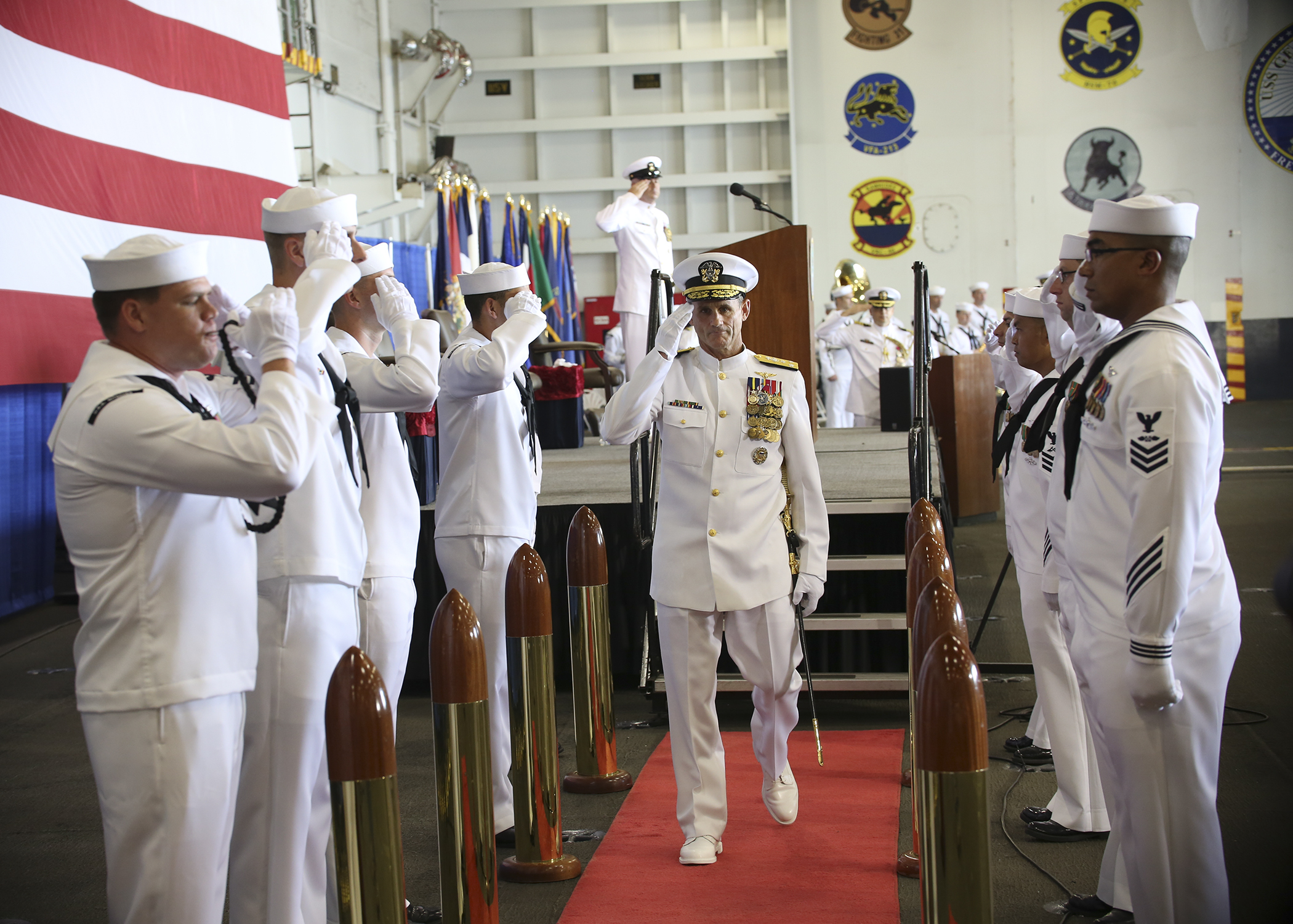 US Navy Description (public domain) "Vice Adm. Andrew "Woody" Lewis departs through the Navy ceremonial red carpet bullets and sideboys after assuming command of U.S. 2nd Fleet aboard the nuclear aircraft carrier USS George H.W. Bush (CVN 77). U.S. 2nd Fleet will exercise operational and administrative authorities over assigned ships, aircraft and landing forces on the East Coast and North Atlantic. 180824-N-RB569-0101"